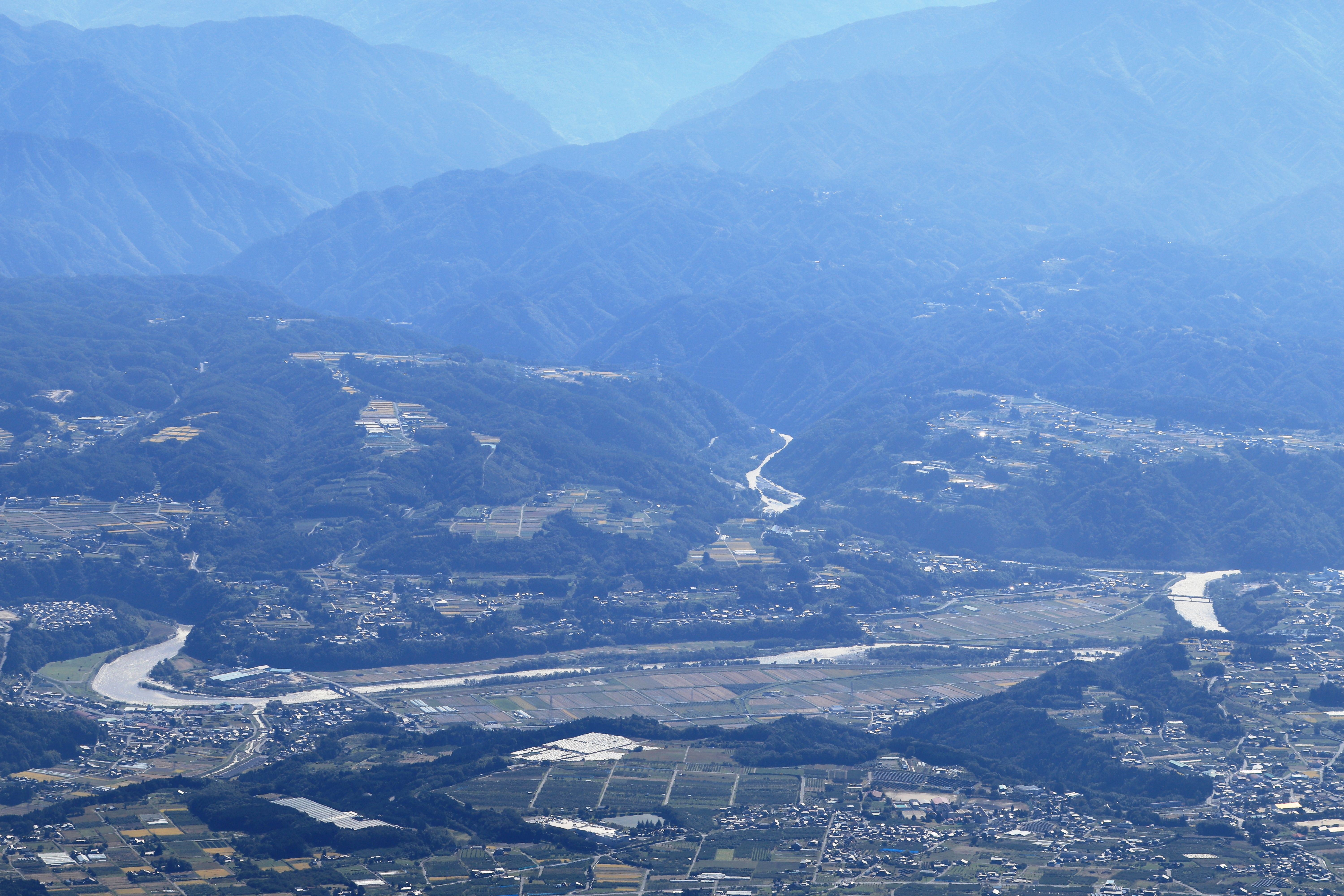 Tenryu River and Koshibu River seen from Mount Eboshi (Kiso Mountains) in Nagano Prefecture, Japan.